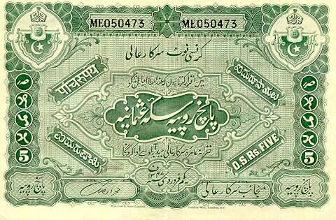 Five-rupee note from Hyderabad, labeled multilingually and dated Feb. 1, 1347 A.H. (1928/9) (downloaded Nov. 1999) "Hyderabad was the only state which had a full fledged paper currency which came into existence in 1916, and enjoyed wide circulation till 1952. The notes were printed till 1939 by Waterlow & Sons, and then onwards by the Security Press at Nasik. The notes are dated in "Fasli" years, an era which was current in the Deccan, associated closely with the Hijri era. The notes are printed entirely in Urdu and other languages which were current in the state, like Kannada, Telgu and Marathi. They are signed by the "Moin-ul-Mulam" or Finance Minister. Sir R.R.Clancey, Hyder Nawaz Jung, Fakhre-yar Jung are a few of the signatories." ( On the back of the same five-rupee note are five images of the Char Minar , the symbol of Hyderabad City. Probably this helped illiterate people to use the notes.